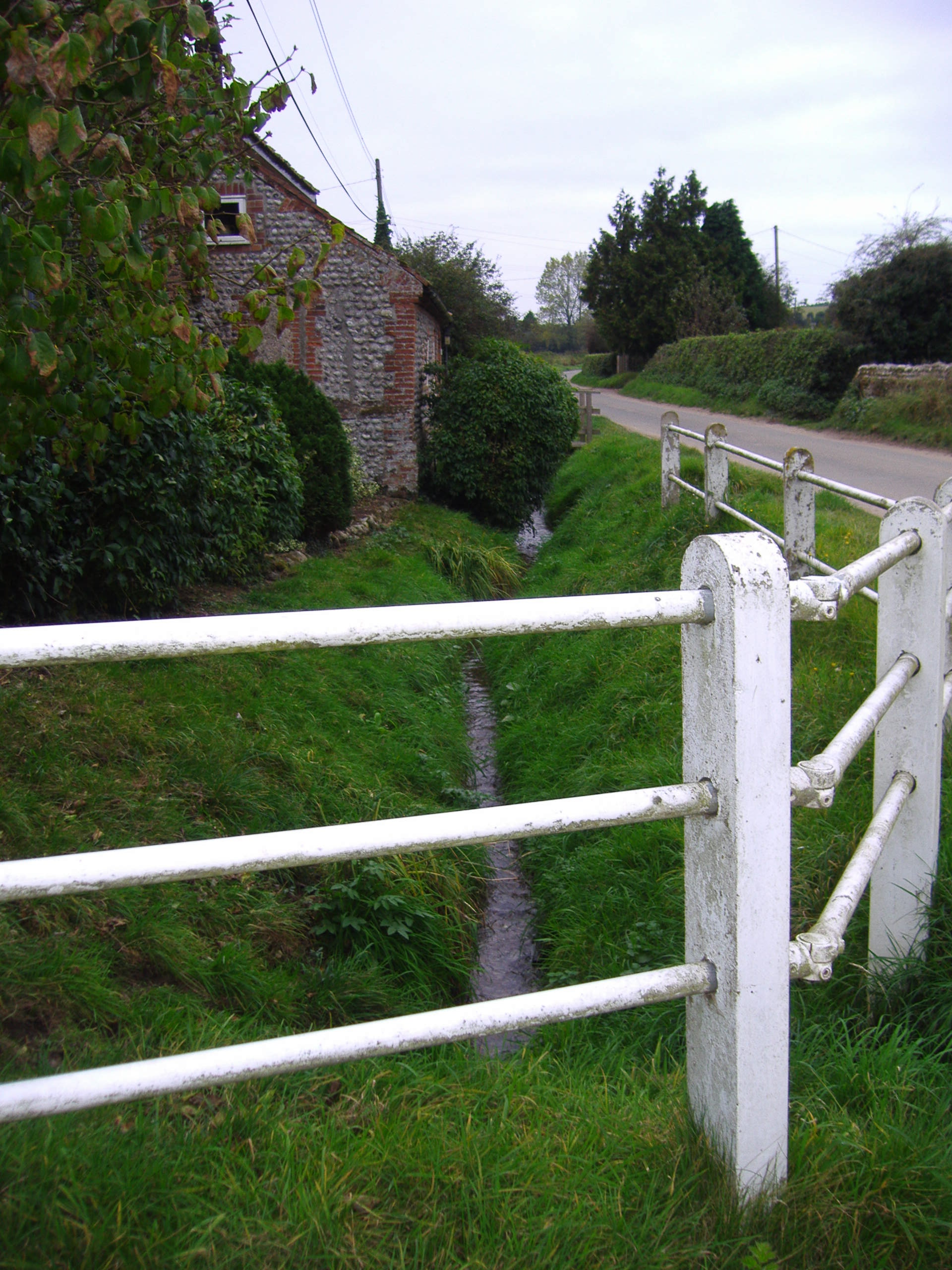 A Digital Photograph of East Beckham taken on the 25th October 2007 by stavros1